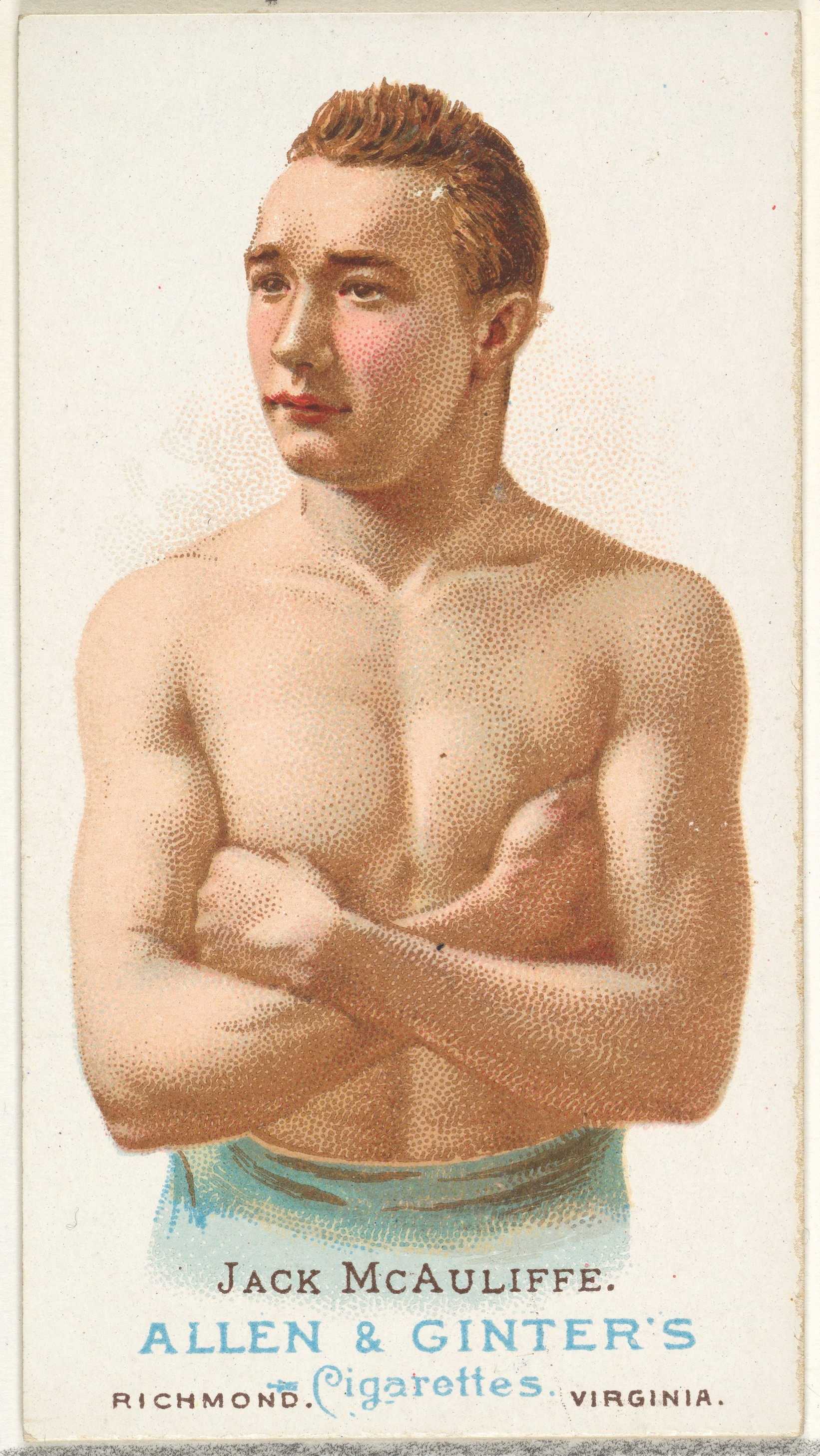 Print; Prints/Ephemera